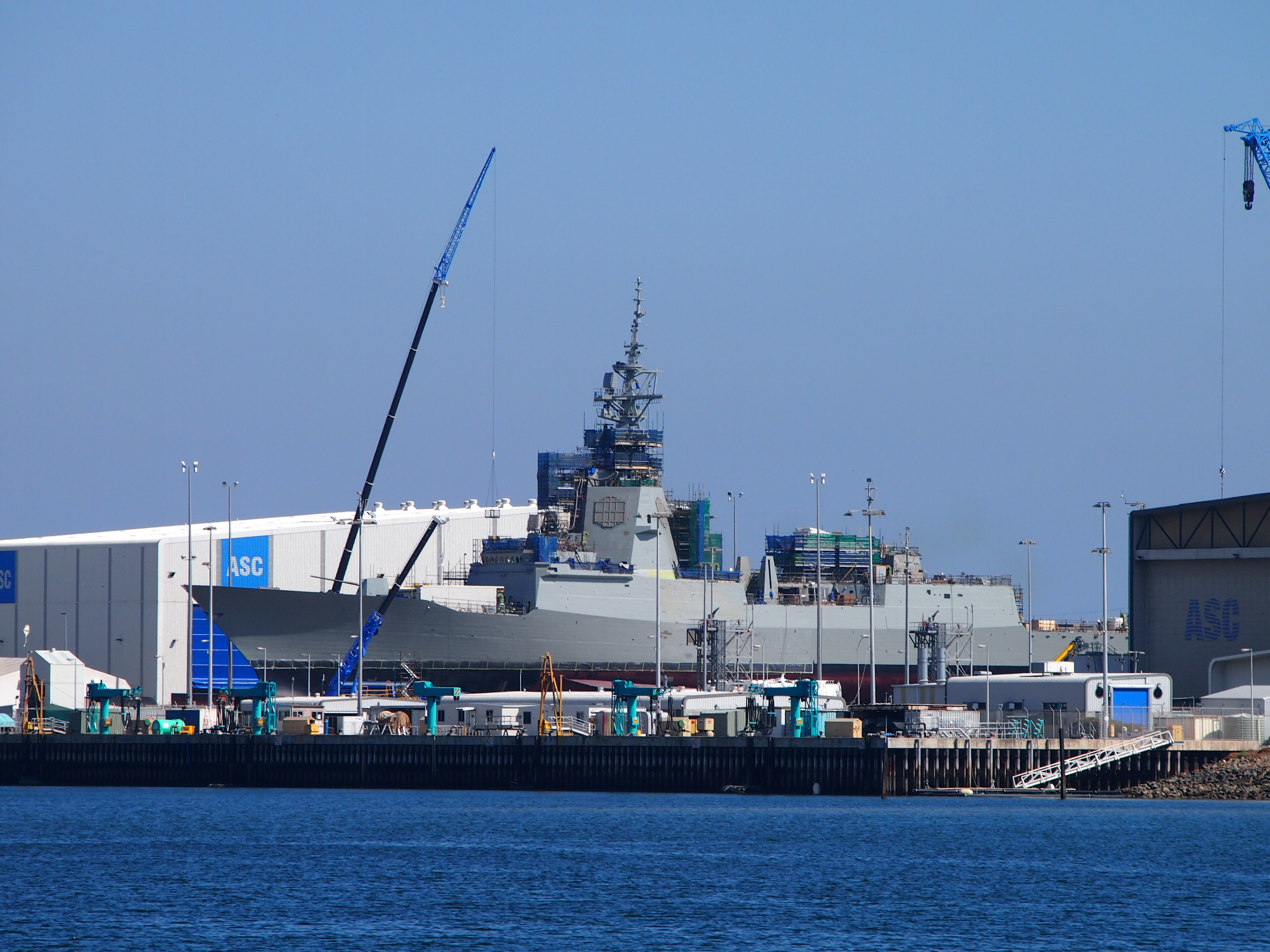 HMAS Hobart under construction by ASC Ltd at Osborne, 10 April 2015. Original filename = P4105722.JPG